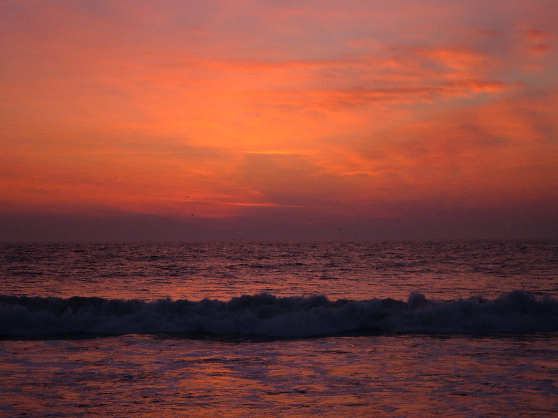 Pink dawn, the morning I saw my first humpback whale